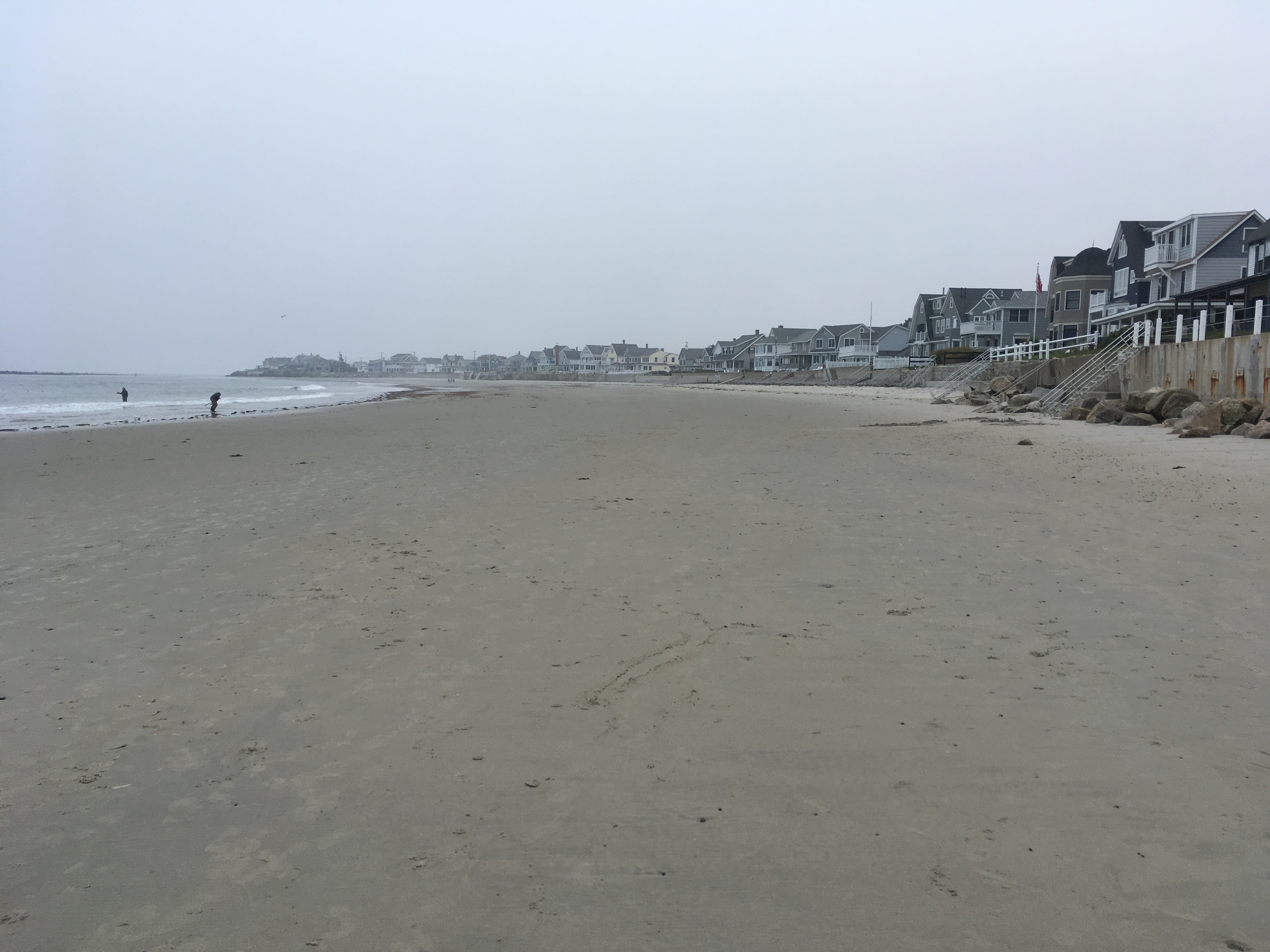 Southern end of Wells Beach in September